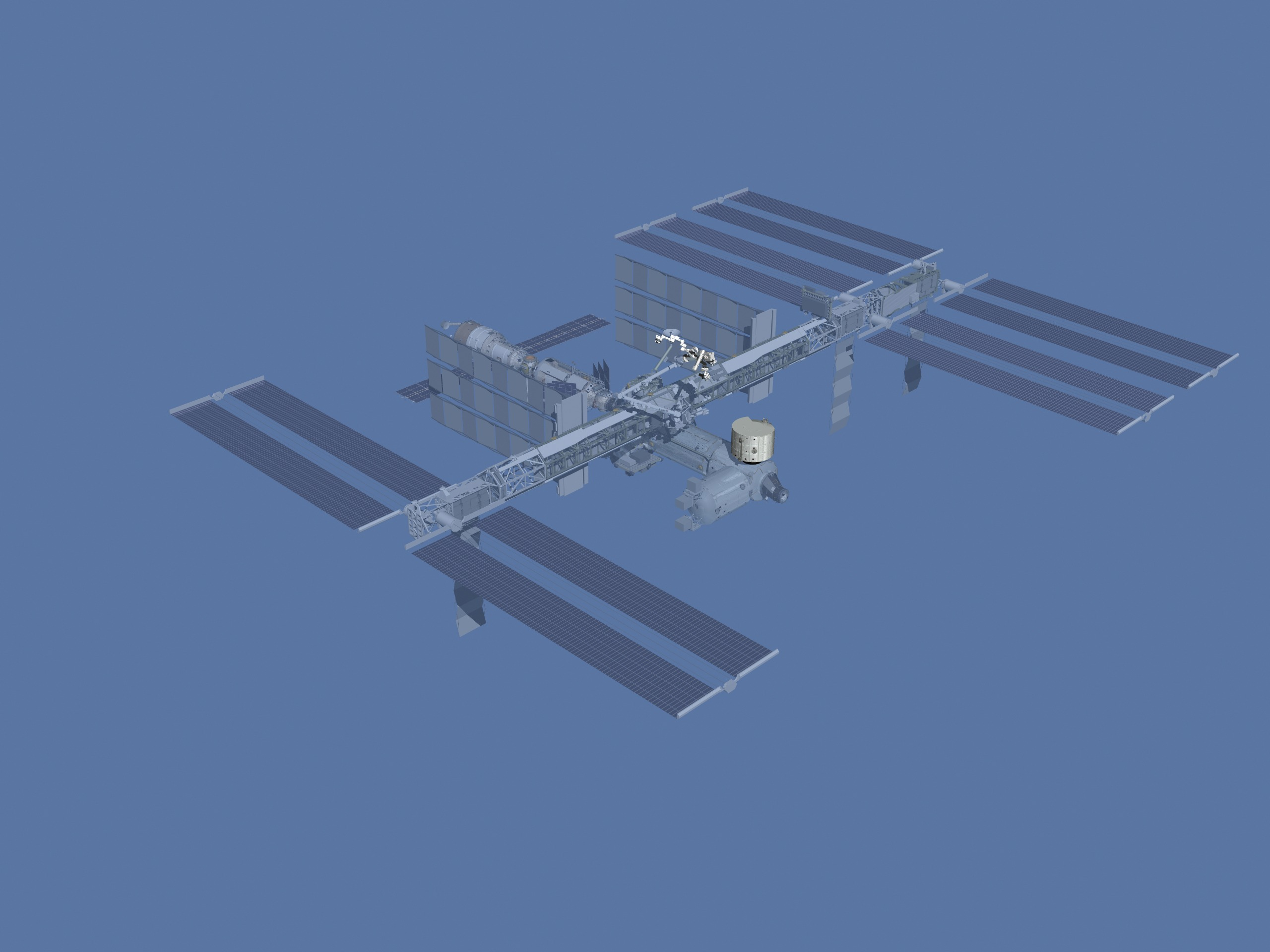 (October 2006) --- Computer-generated artist’s rendering of the International Space Station after flight 1J/A. Kibo Japanese Experiment Lojism Module - Pressurized Section (ELM-PS) is installed on top of Node 2. Canadian Special Purpose Dexterous Manipulator (SPDM) - Dextre - is installed. (Credit: NASA)